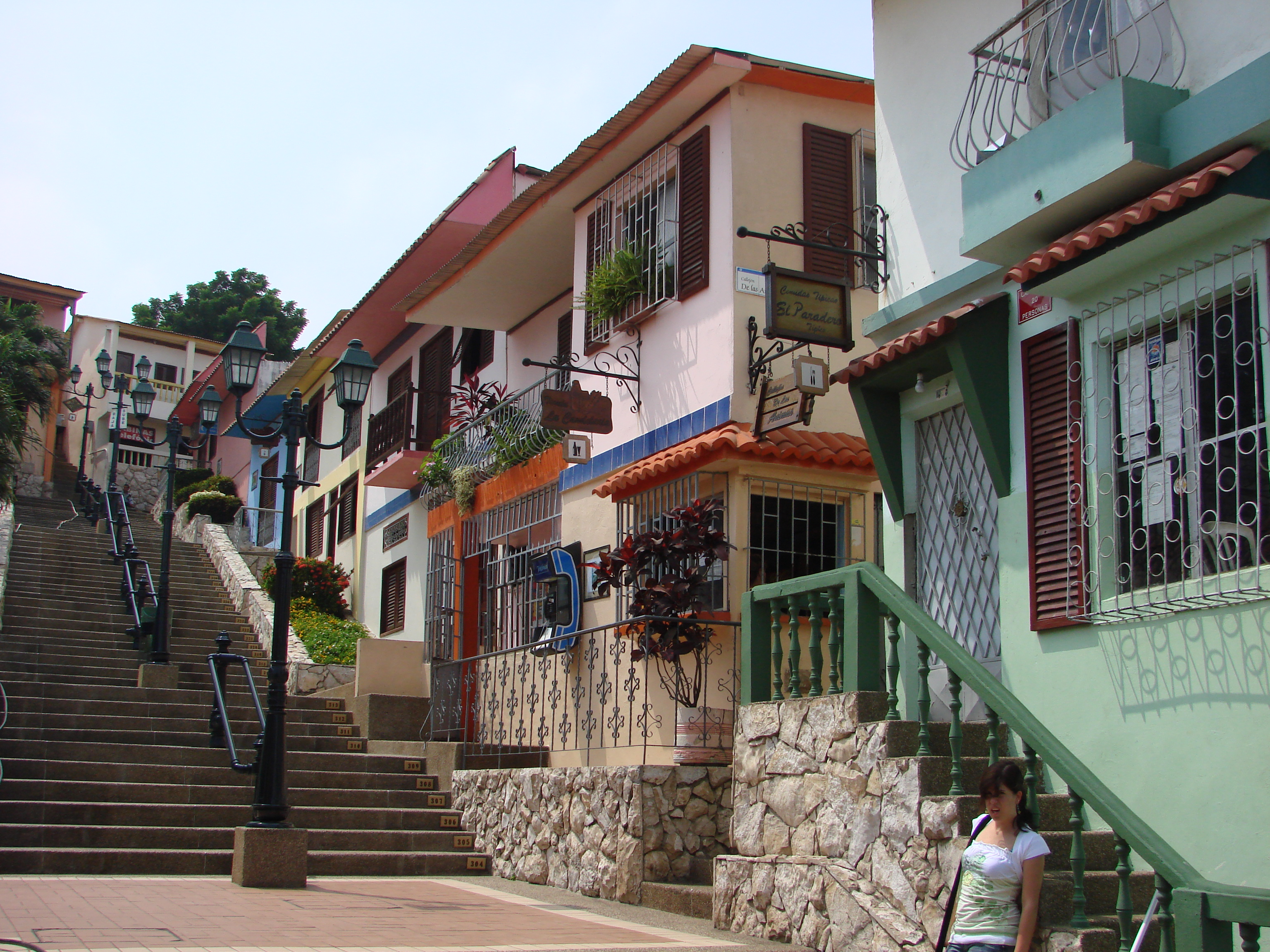 Las Peñas Restored Neighborhood, located at downtown Guyaquil-Ecuador